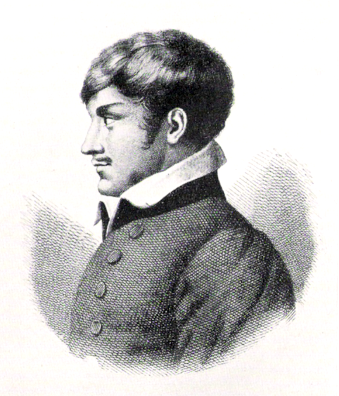 Ernst Konrad Friedrich Schulze (1789-1817), German poet, copper engraving